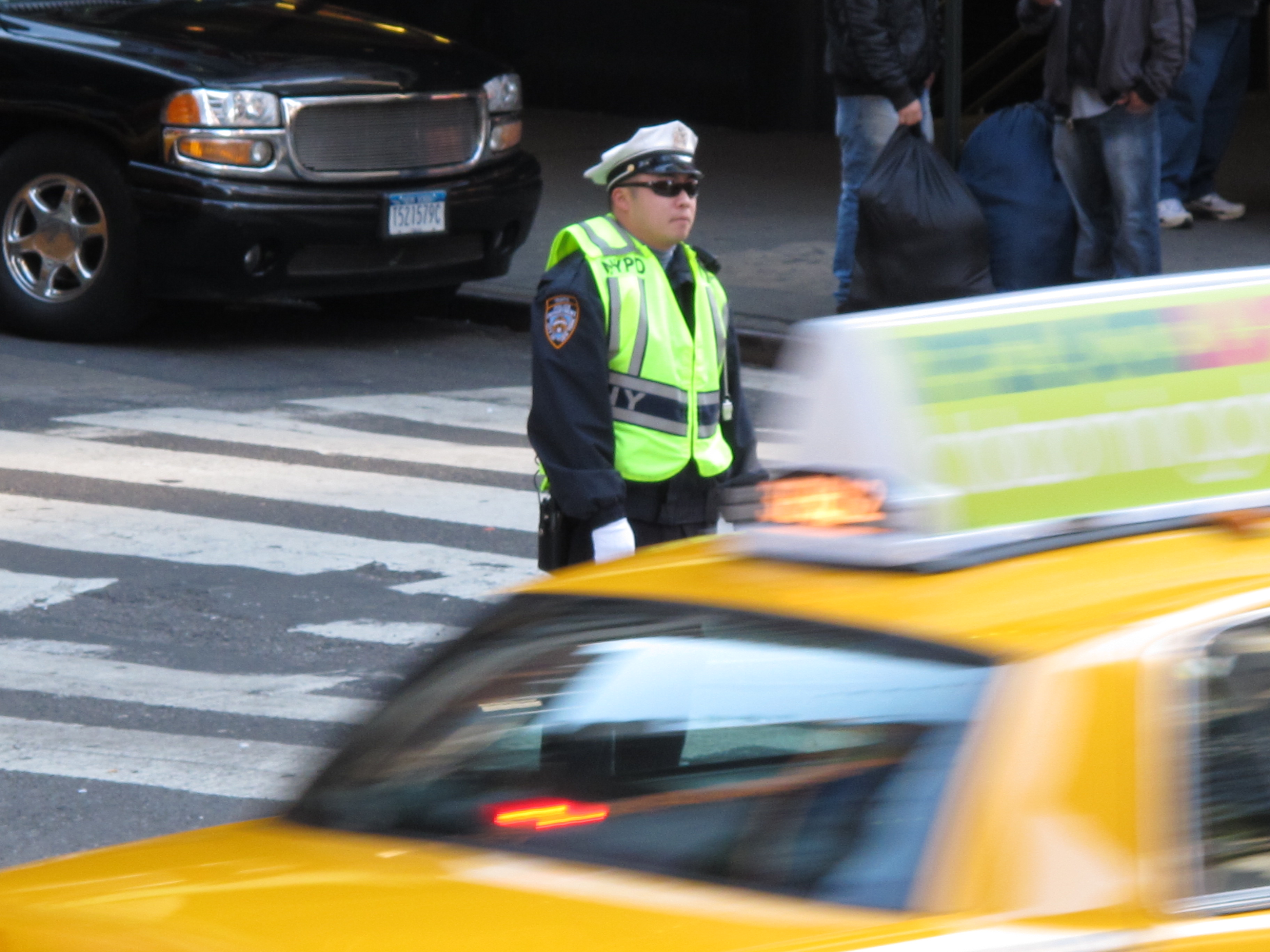 Manhattan, New York City